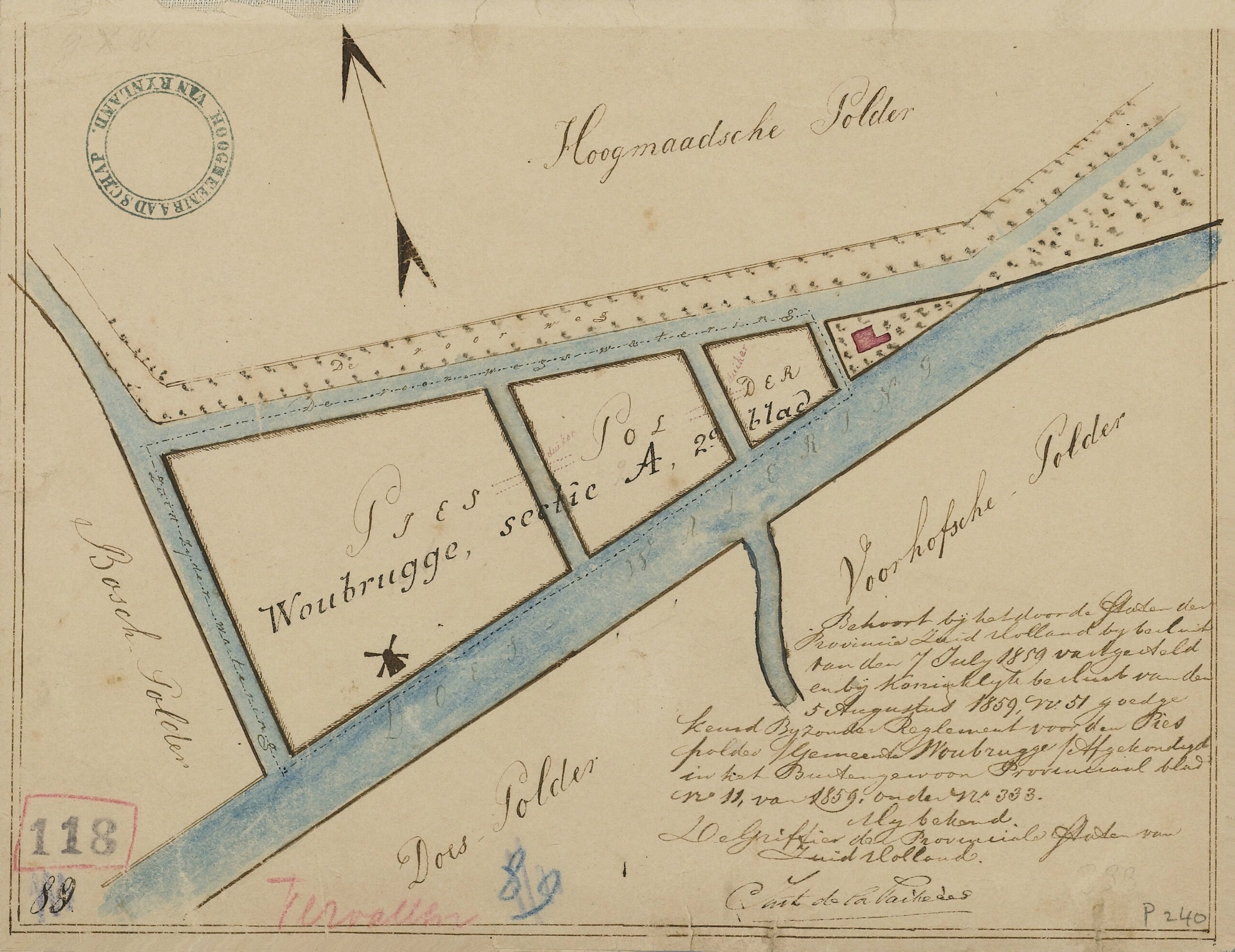 Border map of the Piest Polder(s) near Hoogmade (Province South Holland, Netherlands). Belongs to the 'Special Rules' for the management of this polder, as adopted in 1859 by the Province of South Holland and published in the Extraordinary Provincial Journal, Nr. 11, 1859, under Nr. 333. The map erroneously refers to the Pies Polder, instead of Piest Polder.